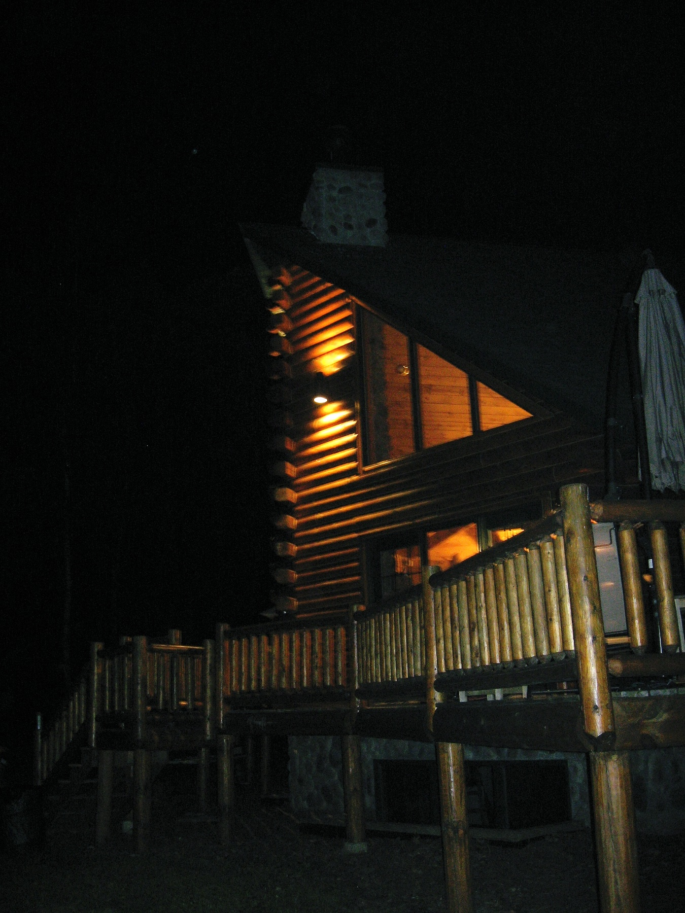 Lord Clarences Log Cabin